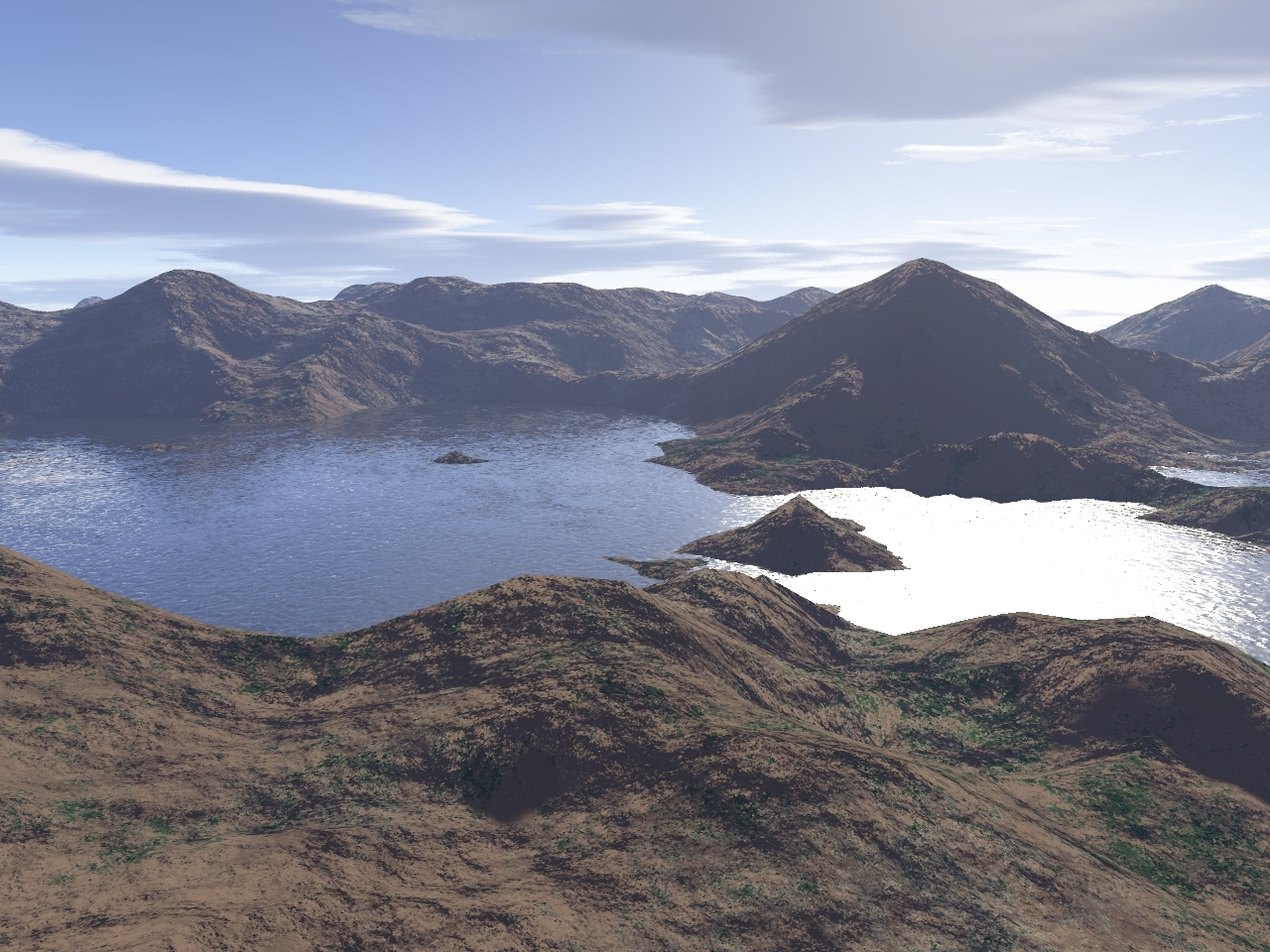 This landscapes is created in free version of Terragen